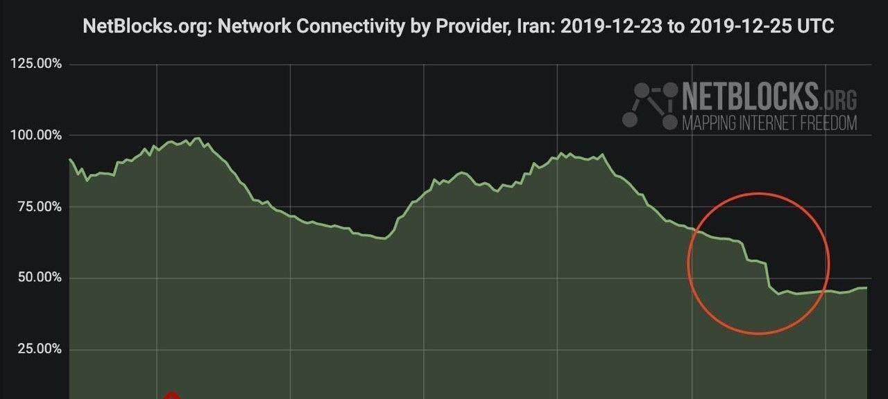 iran internet discuption